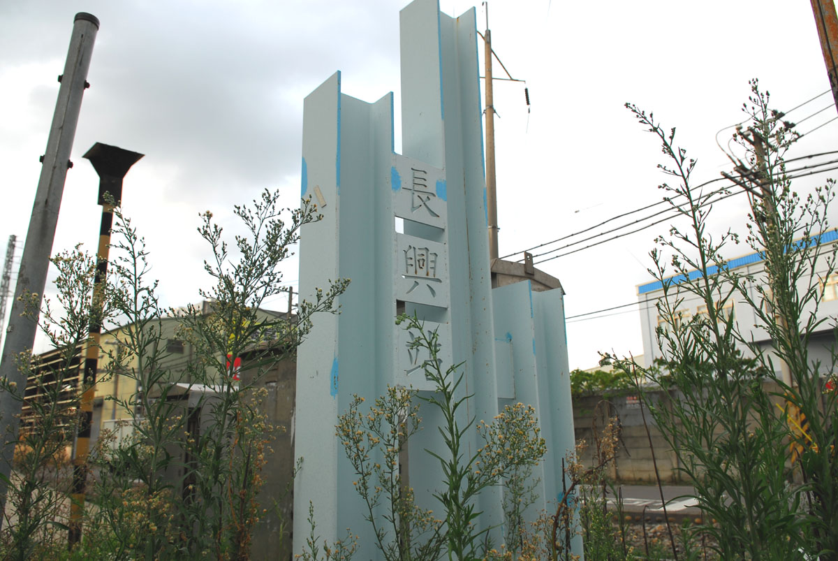 Changshing Station is a small station on Linkou Line. This photo shows the station sign made from abandoned rails.